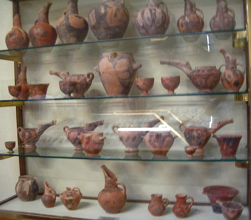 Archaeological Museum of Herakleion, Hall I, showcase 6: Prepalatial Pottery from Vasiliki, socalled Vasiliki style.